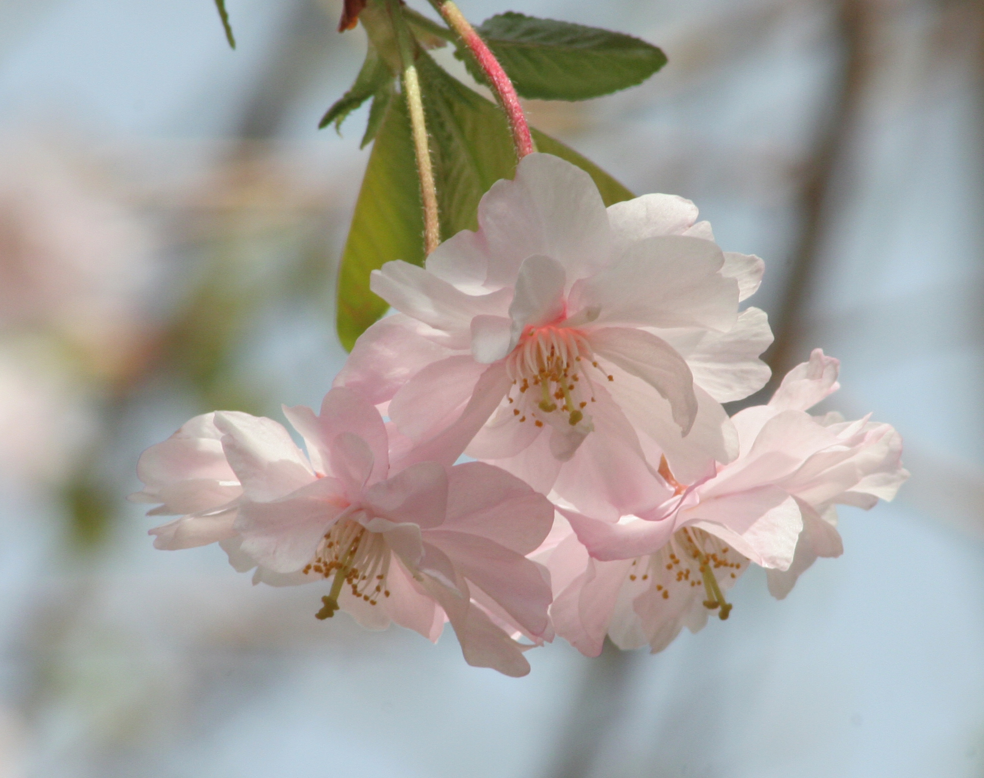 Double-flowered Cherry Blossoms